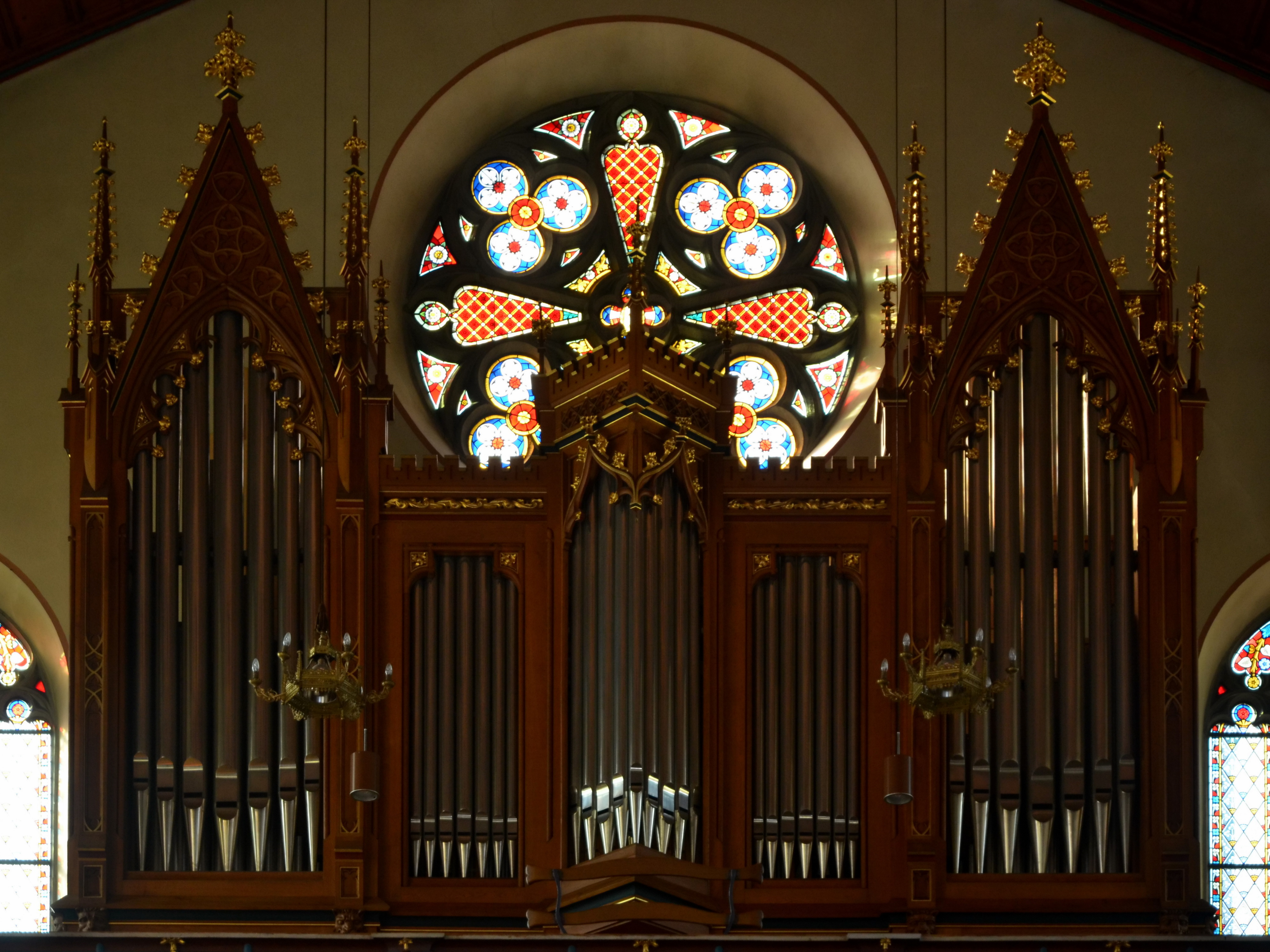 Stadtpfarrkiche St. Johann (S. John's church) in Rapperswil (Switzerland)